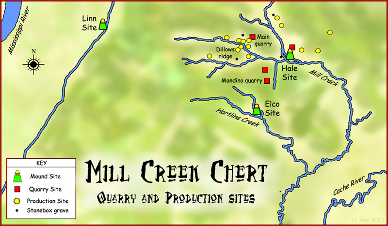 A map showing the distribution of sites associated with the quarrying, production and distribution by the Mississippian culture of Mill Creek chert.